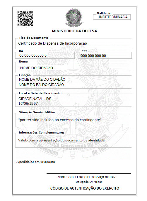 waiver certificate template